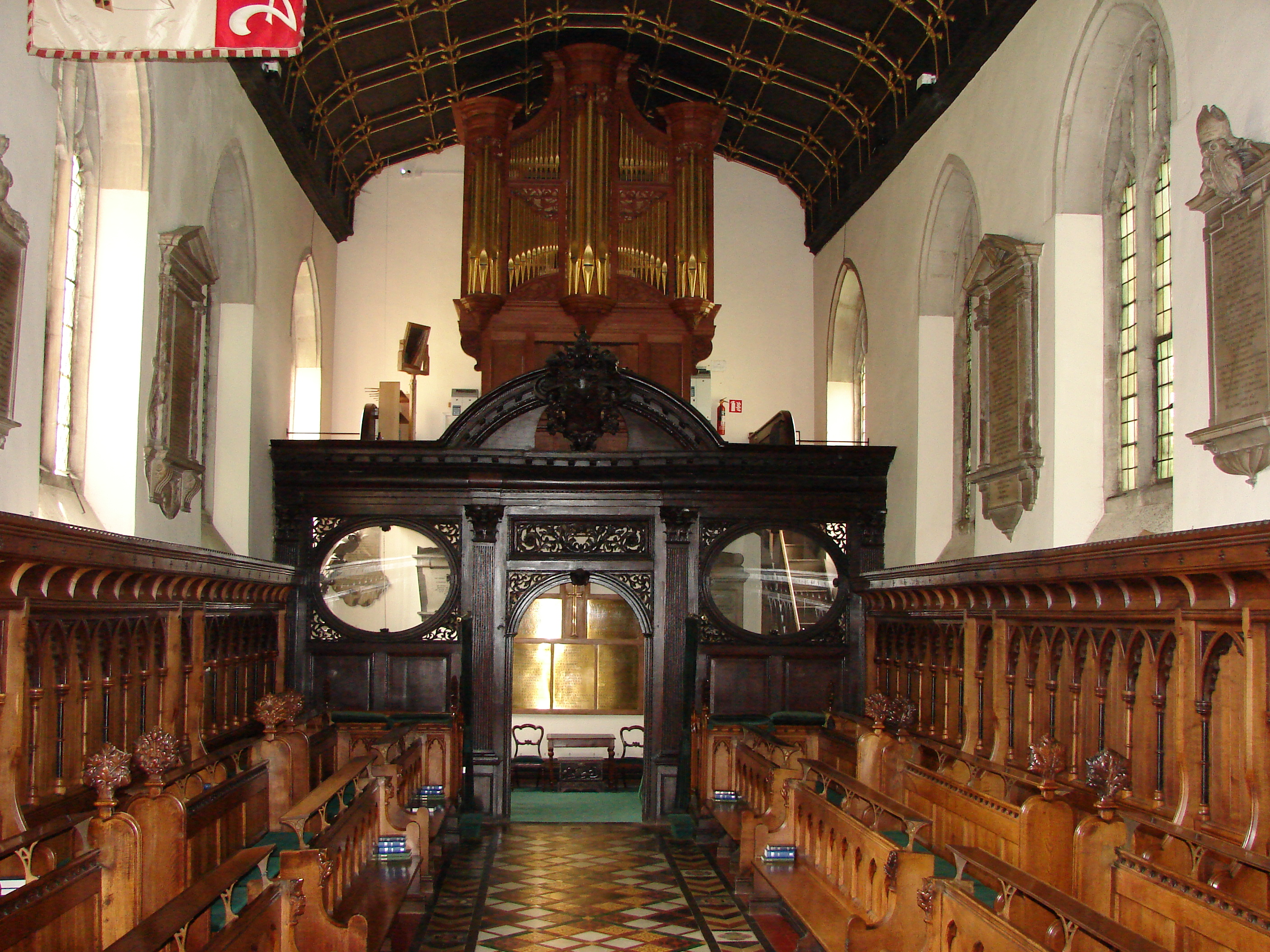 View of chapel of Jesus College Oxford facing West